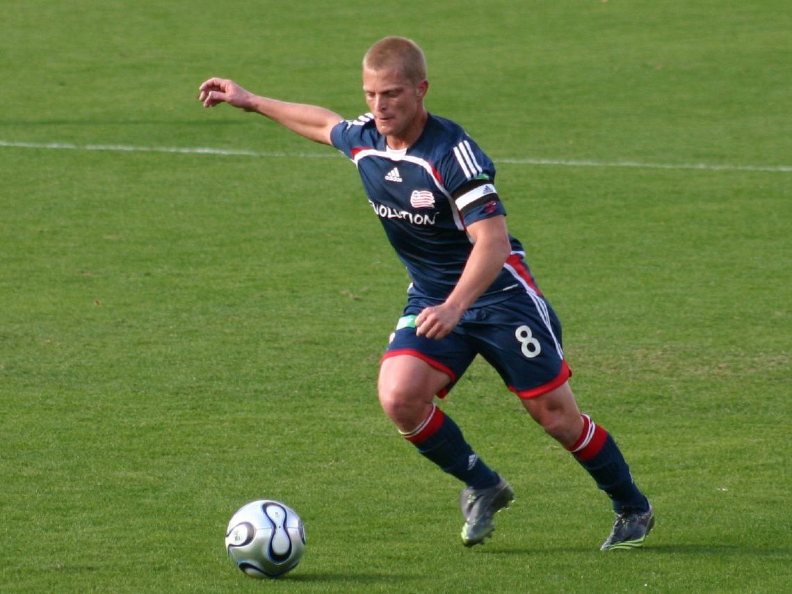 Joe Franchino at the 2006 MLS Cup.IMG_7771